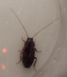 Picture of laboratory colony specimen adult Diploptera punctata (Pacific beetle cockroach)